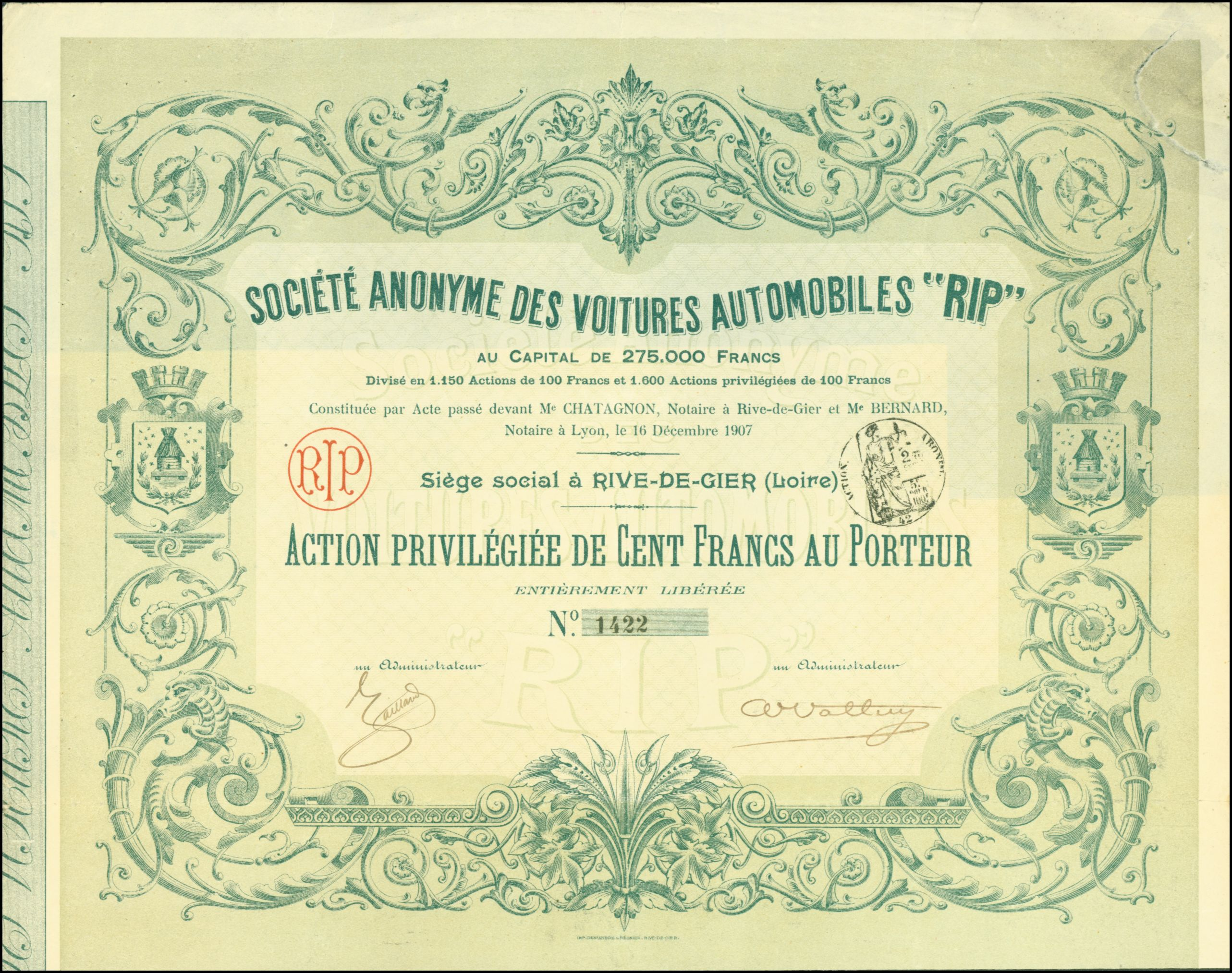 Share of the SA des Voitures Automobiles Rip, issued 16. December 1907